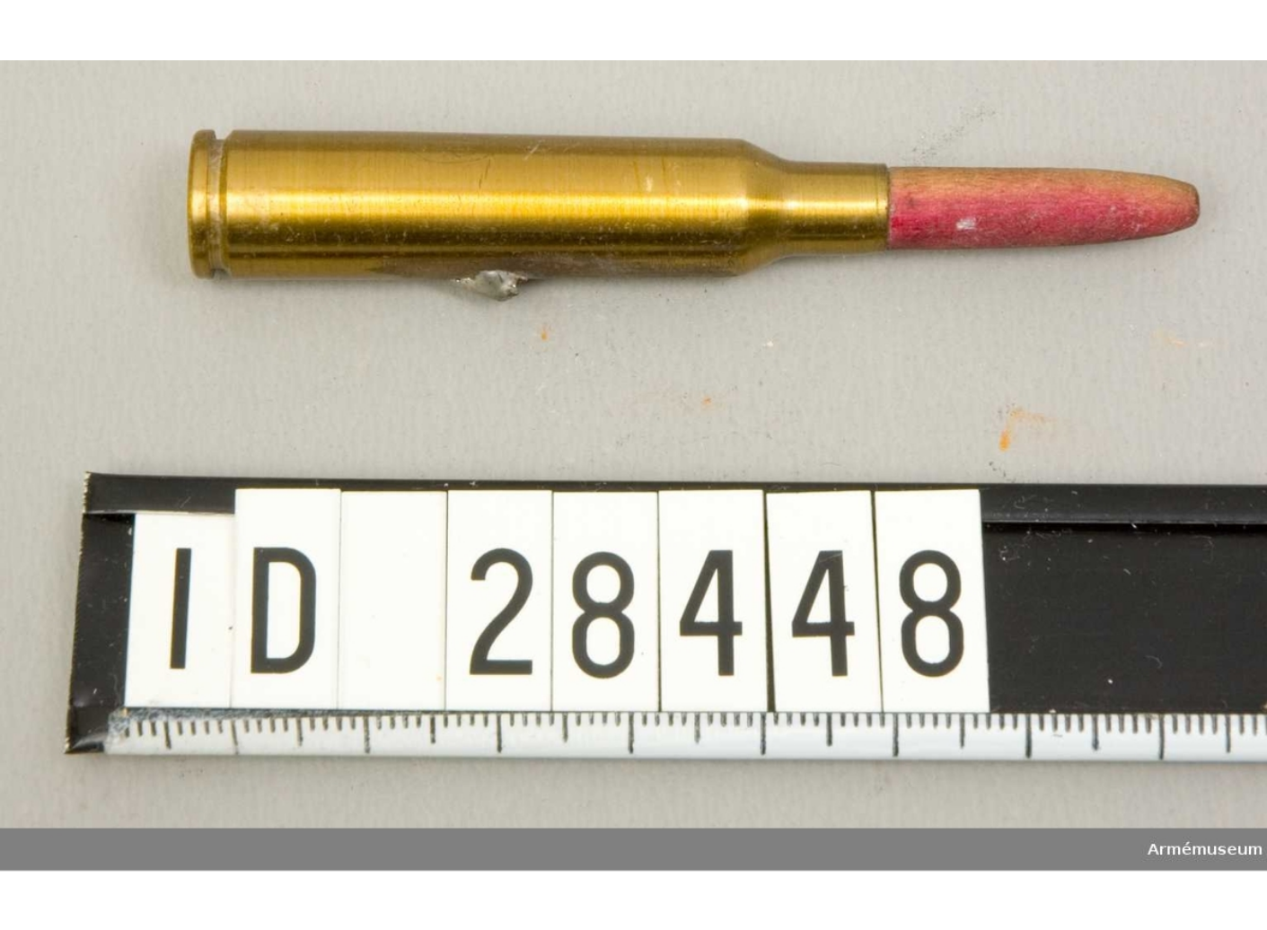 Lös patron m/1895 6.5×55mm blank rifle cartridge. From the collections of Armémuseum (Swedish Army Museum), Stockholm.